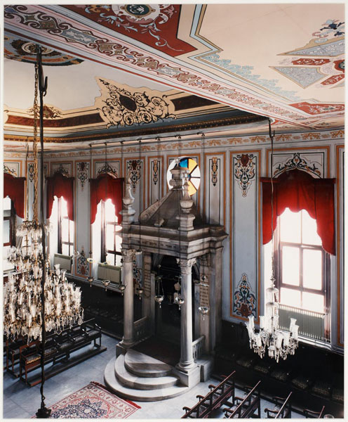 Description: Synagogue Hemdat Israel (Compassion of Israel), circa 1899, Haydarpasha Quarter, Istanbul Creator/Photographer: Devon Jarvis Medium: Color photographic print Dimensions: 23 x 19 inches Date: 1996 Persistent URL: Repository: American Sephardi Federation, 15 West 16th Street, New York, NY 10011 Call Number: ASF TS 13 Rights Information: Copyright Joel Zack and Devon Jarvis, reproduction without permission prohibited. For more copyright information, click here. See more information about this image and others at CJH Digital Collections. Digital images created by the Gruss Lipper Digital Laboratory at the Center for Jewish History